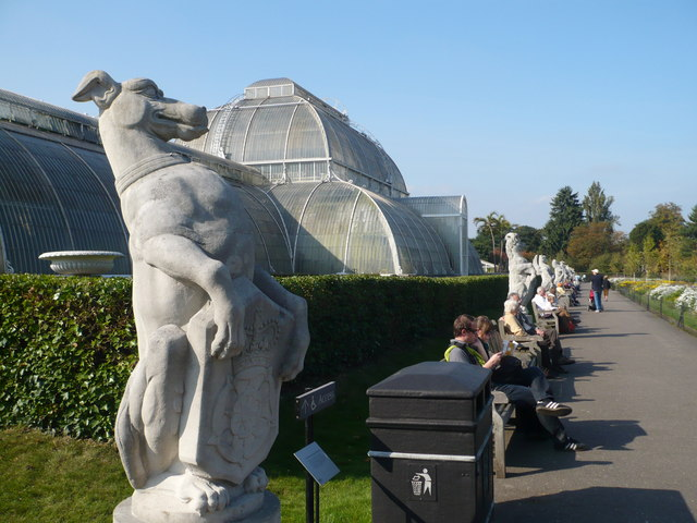 Path to the Palm House, Kew Gardens In the foreground is one of ten heraldic statues that stand in front of the Palm House. They are the Queen's Beasts and were carved by James Woodford in 1956.